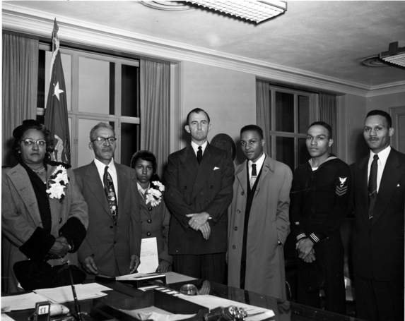 Title: Secretary of the Army Pace with the Family of Sergeant Cornelius H. Charlton Accession number: 63-1078-05